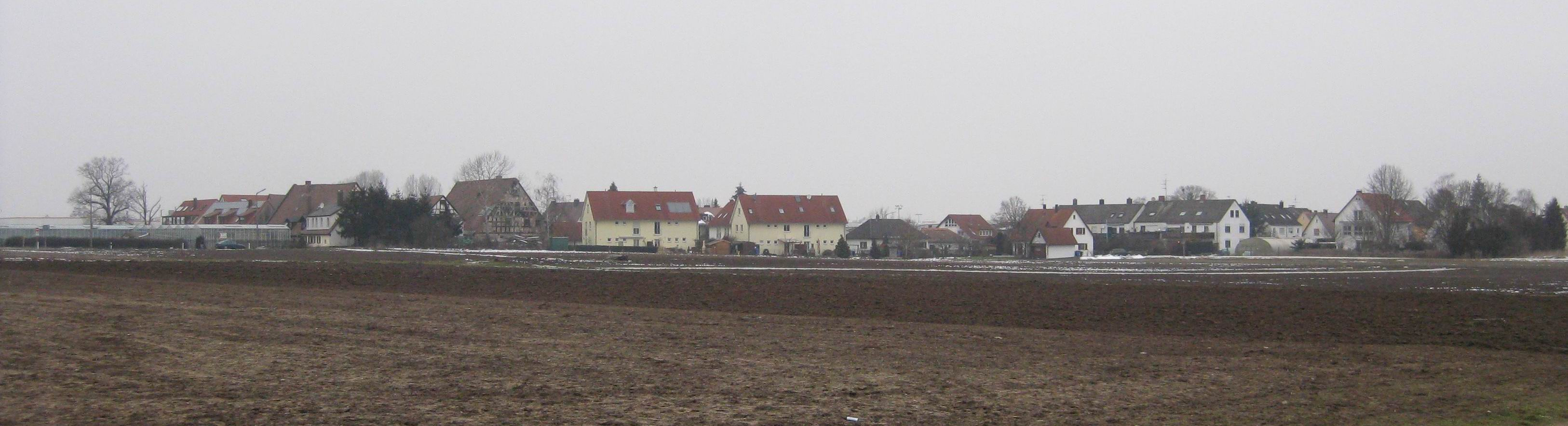 photo in Nuremberg from Westpark to Gaismannshof in the north